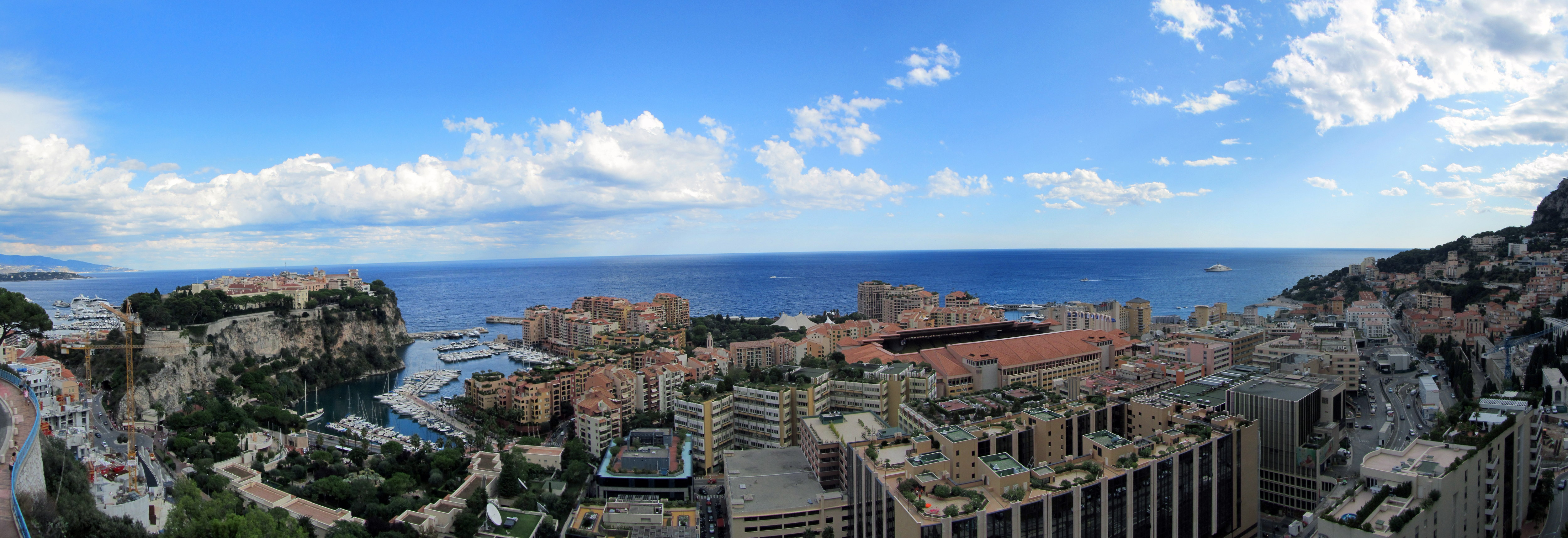 Panoramic view of Monaco